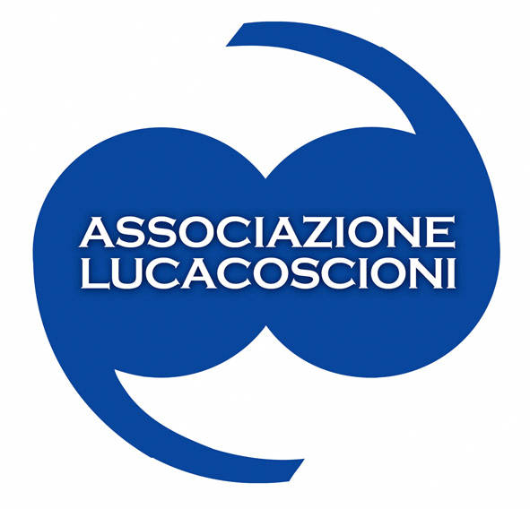 Official logo taken from the official website